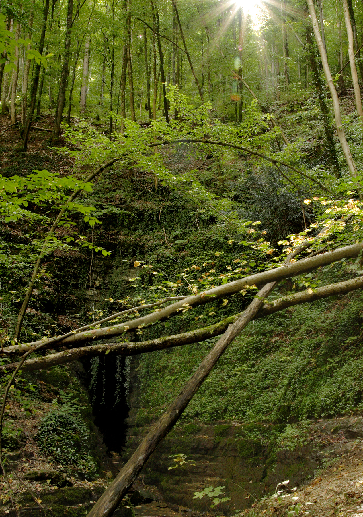 Schlattstaller Goldloch, one of six karst springs in a side valley of the Lenninger Lauter. In the upper Triassic of the Swabian Alb.